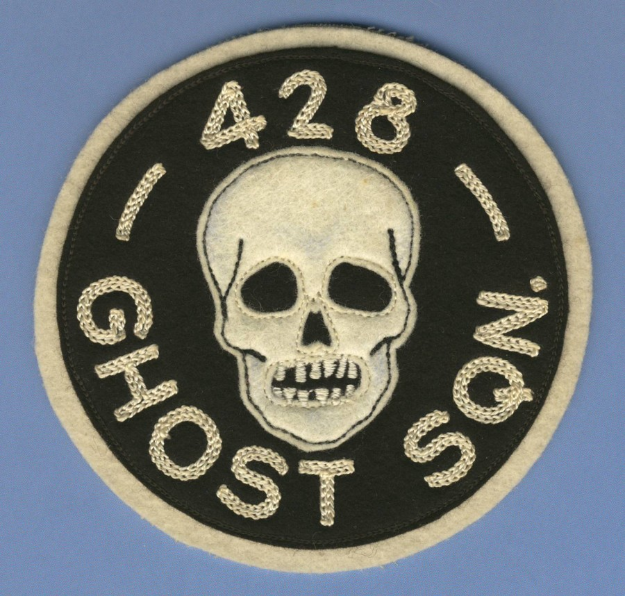 The first issue of the post war flight suit patch for 428 Squadron, RCAF. Based on the Crest Craft back-stamp, the patch was manufactured in 1955 or earlier. Note the extraordinary quality of the double chain stitching.